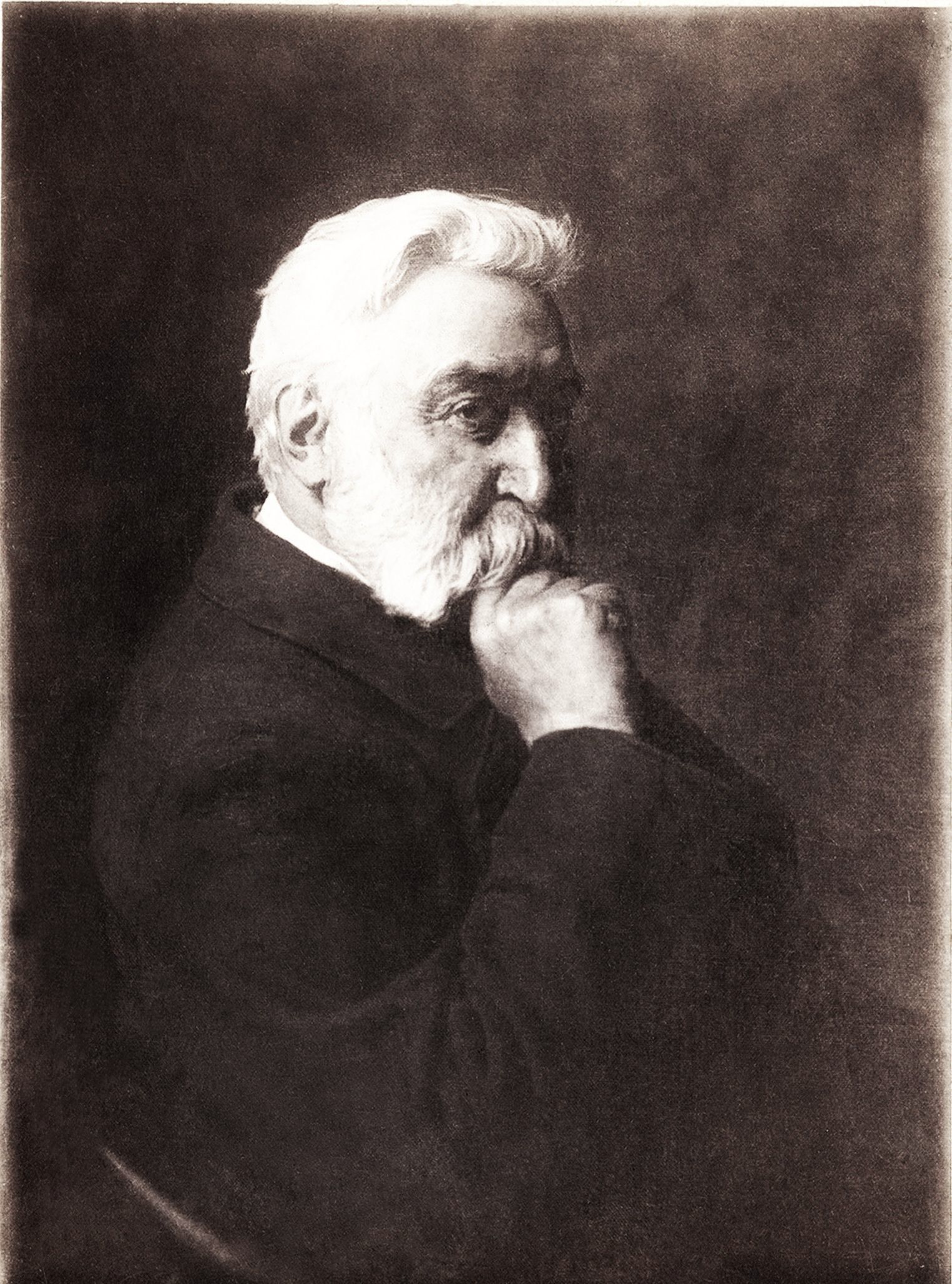 1890s portrait of Count Feliks Sobanski